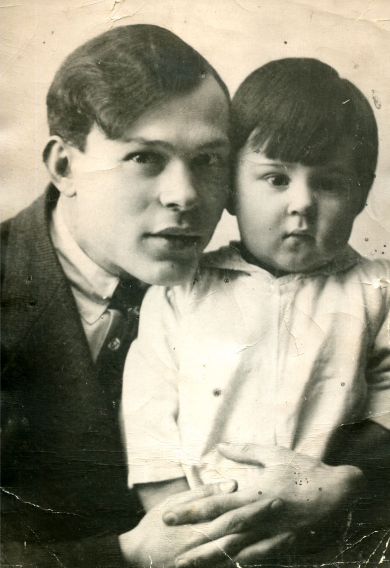 Soviet cultural figure Boris Gusman with his son Israel.